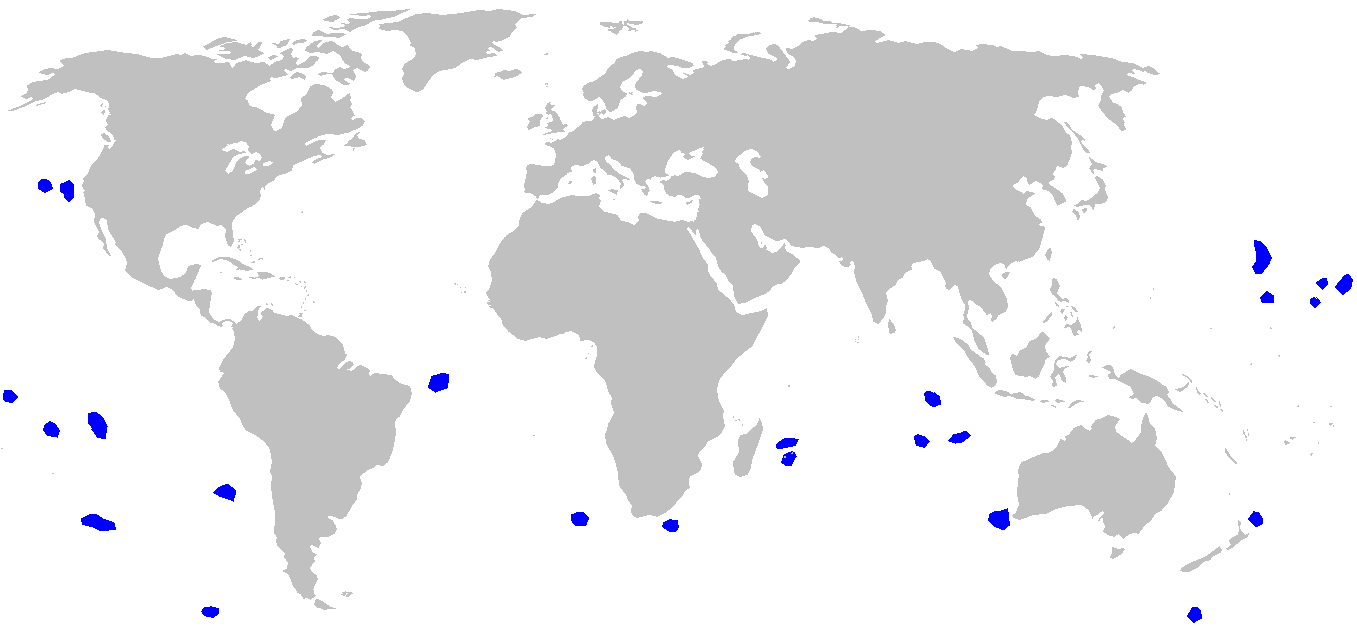 Distribution map for Euprotomicrus bispinatus